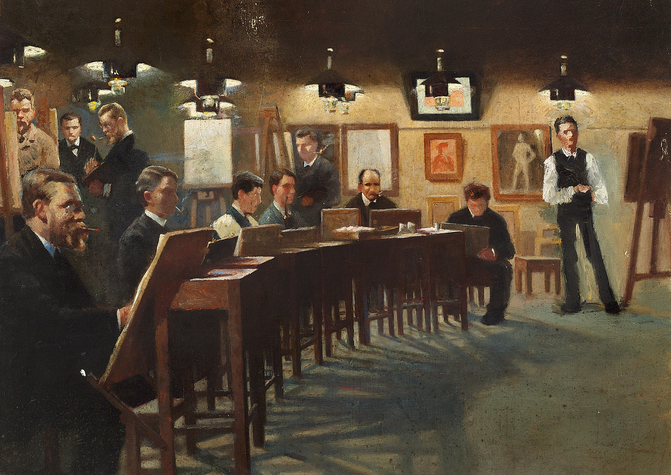 Painting from Kunstnernes Frie Studieskoler, an art school established in1882 in Copenhagen, Denmark, as an alternative to the education at the Royal Danish Academy of Fine Arts. It was led by Laurits Tuxen and the picture is painted by Johan Rohde who was then a student at the school and later become the leader of one of its departments